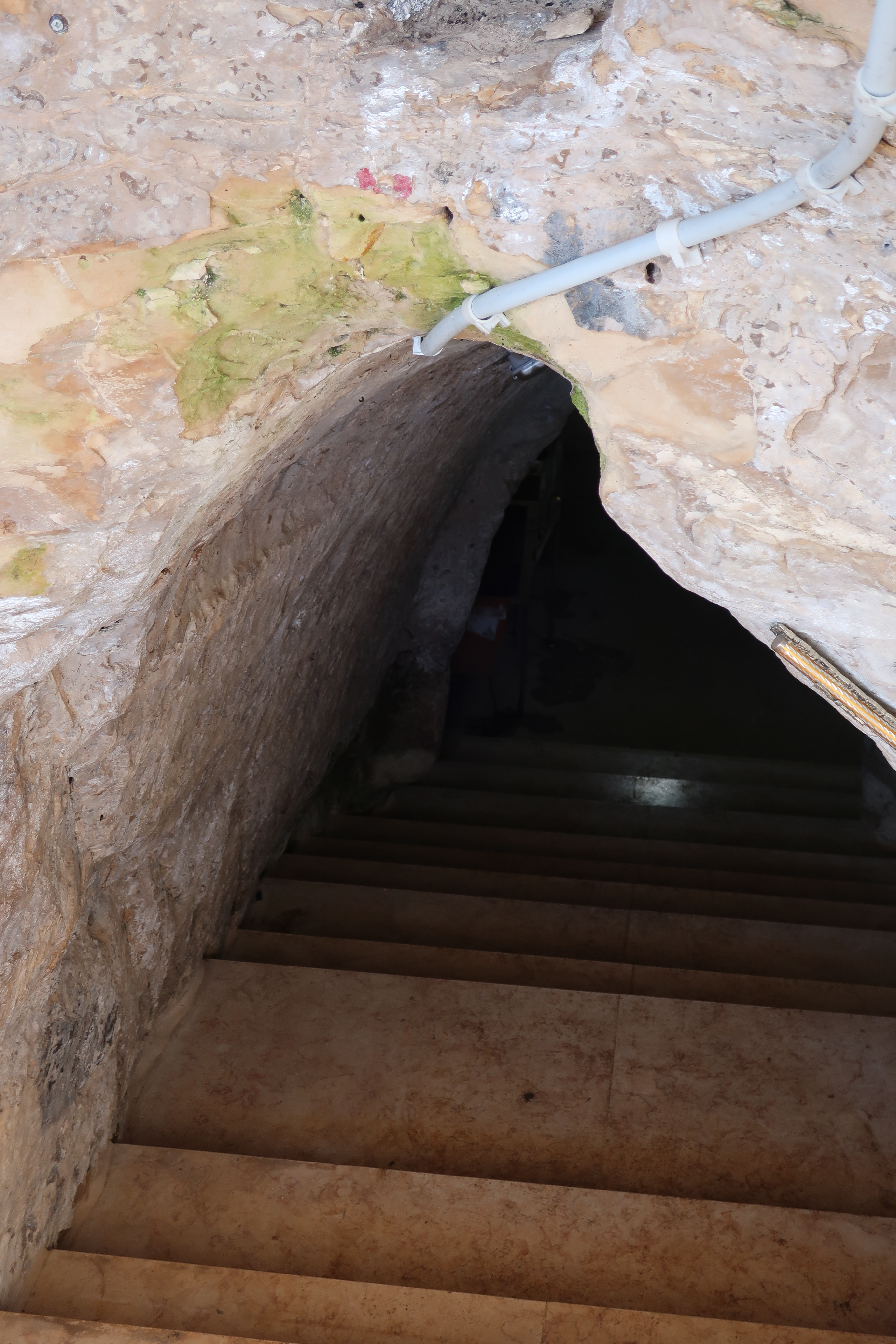 Cave of Abayye and Rava on Har Yavnit, near the Biriya fortress